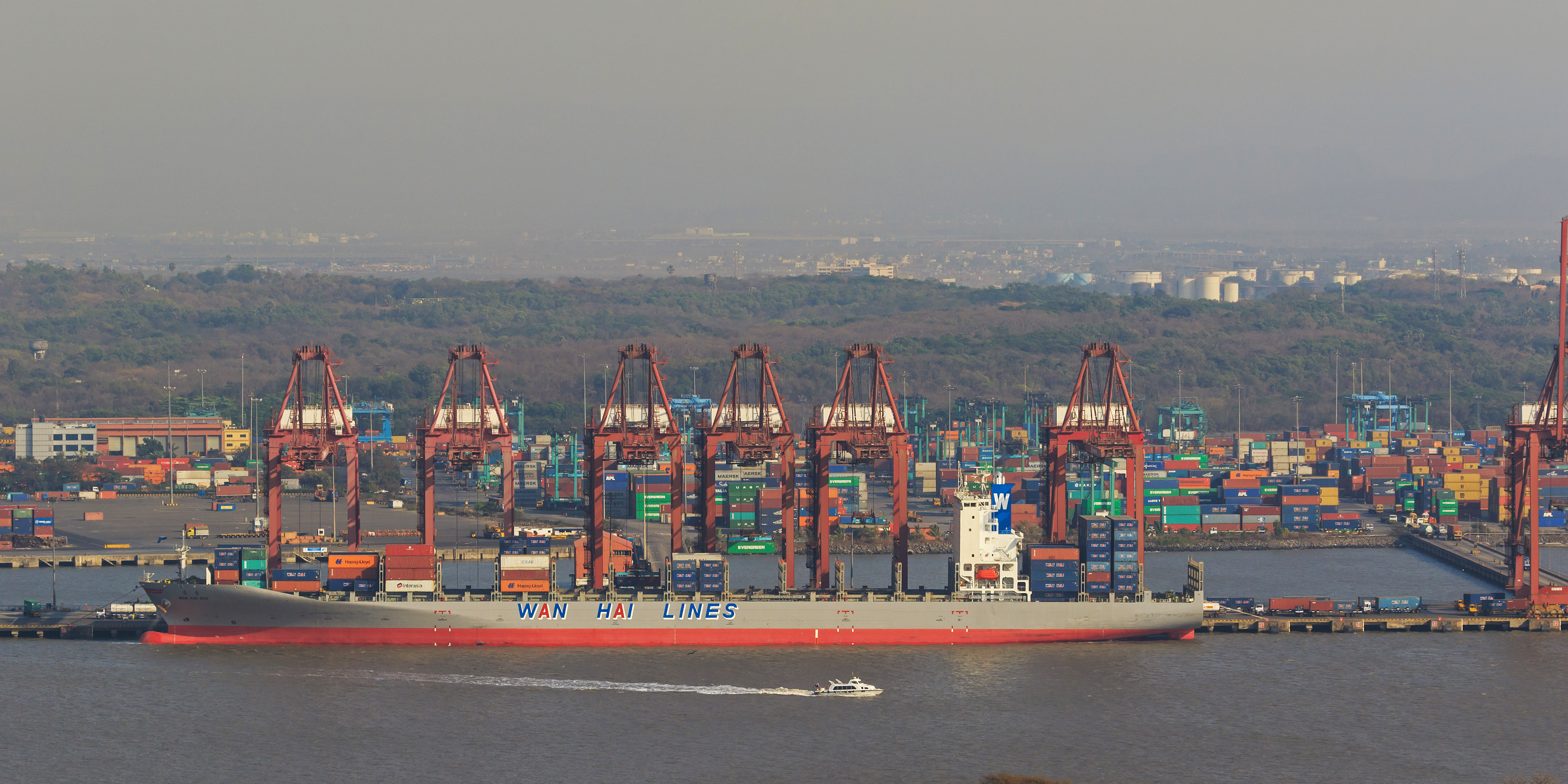 View from Cannon Hill on Elephanta Island, Maharashtra, India.